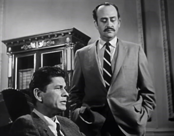 Charles Bronson (left) & Rodolfo Hoyos Jr. in the TV series Man with a Camera, episode Blind Spot - cropped screenshot